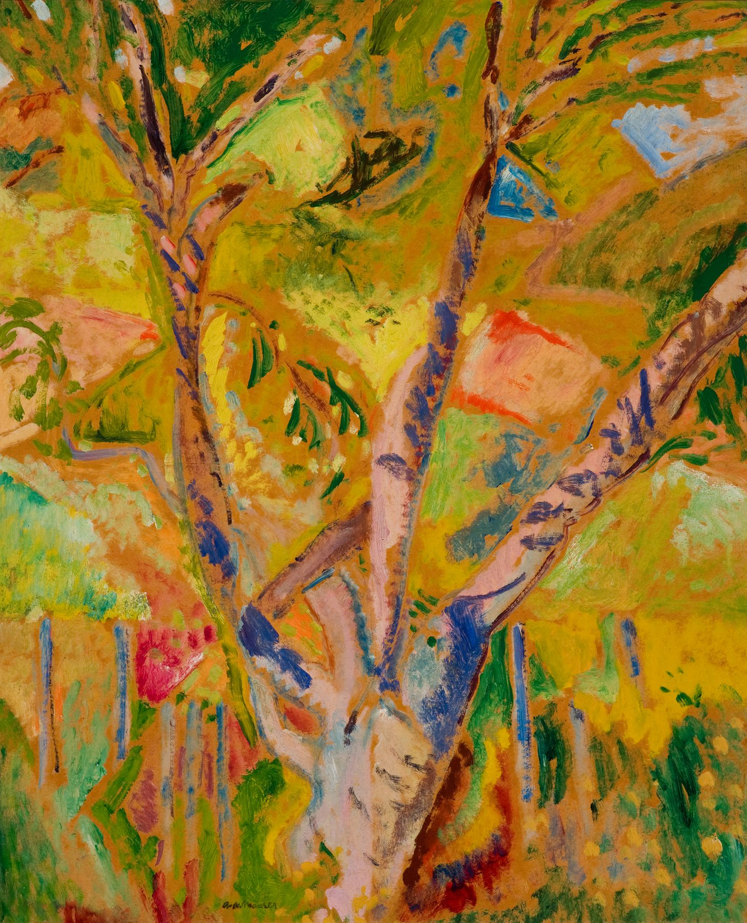 "Landscape of Provence," by the American artist Alfred Henry Maurer, Reynolda House Museum of American Art, Winston-Salem, North Carolina